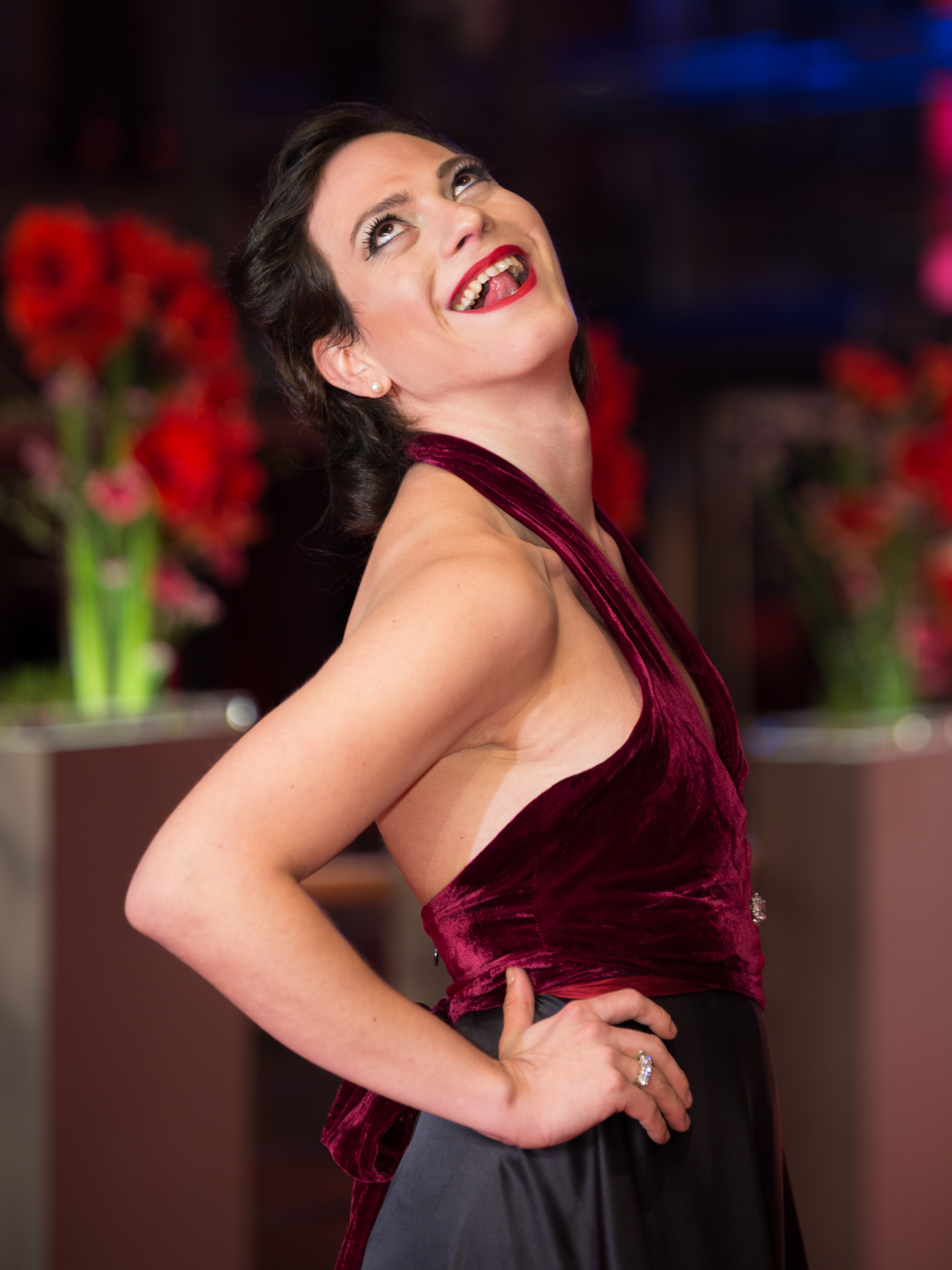 The transgender actress Daniela Vega of the movie A Fantastic Woman (Una Mujer Fantástica) on the red carpet at the Berlinale 2017